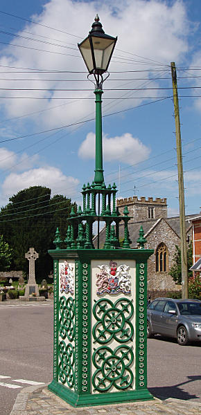 Ornate pump in centre of Hemyock. War memorial behind on left; St. Mary's Church behind on right. Ancient yew tree is in the church-yard. Photo R. Sheppard 2007.